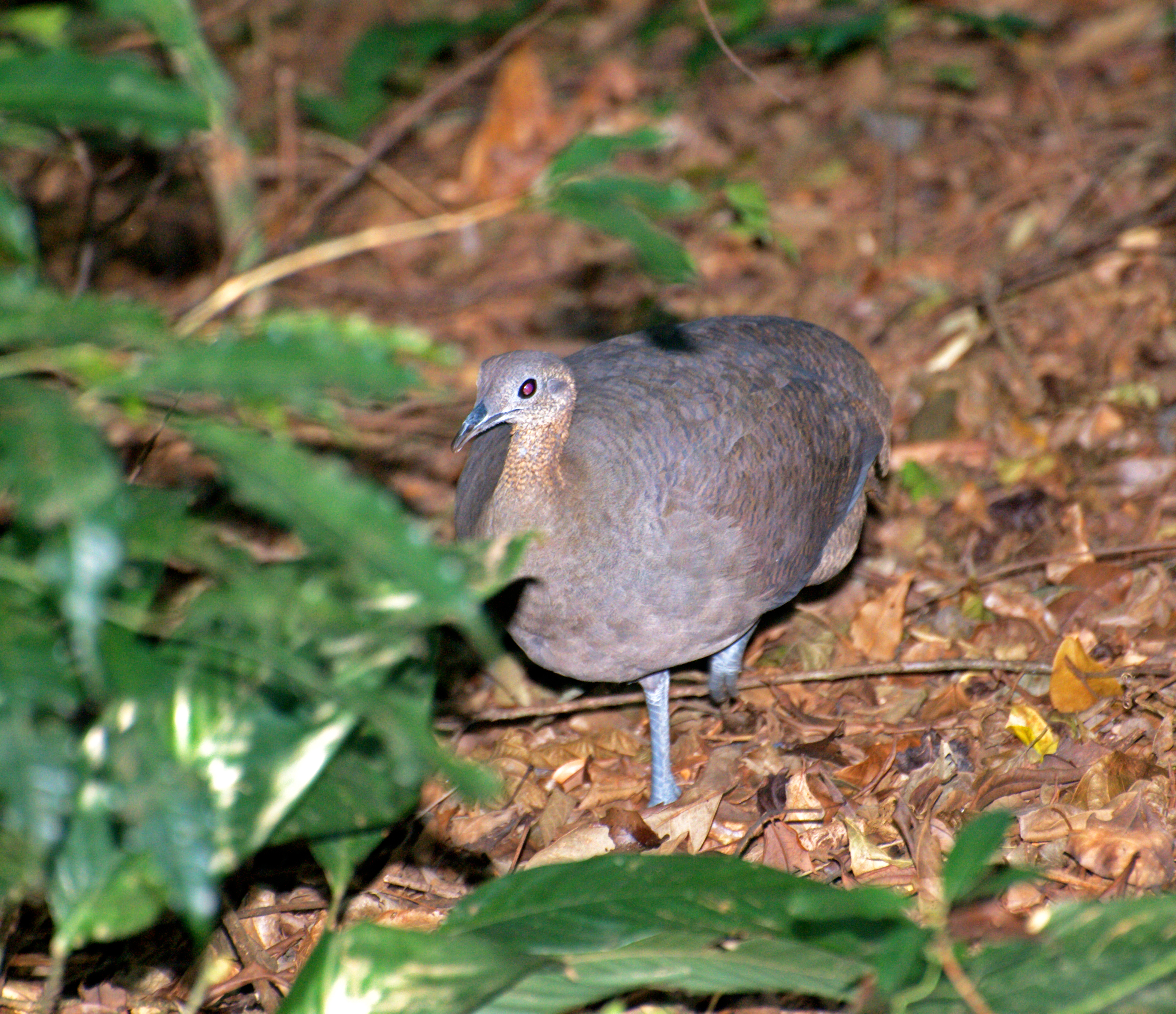 A Solitary Tinamou in Parque Estadual da Serra da Cantareira, São Paulo, Brazil.